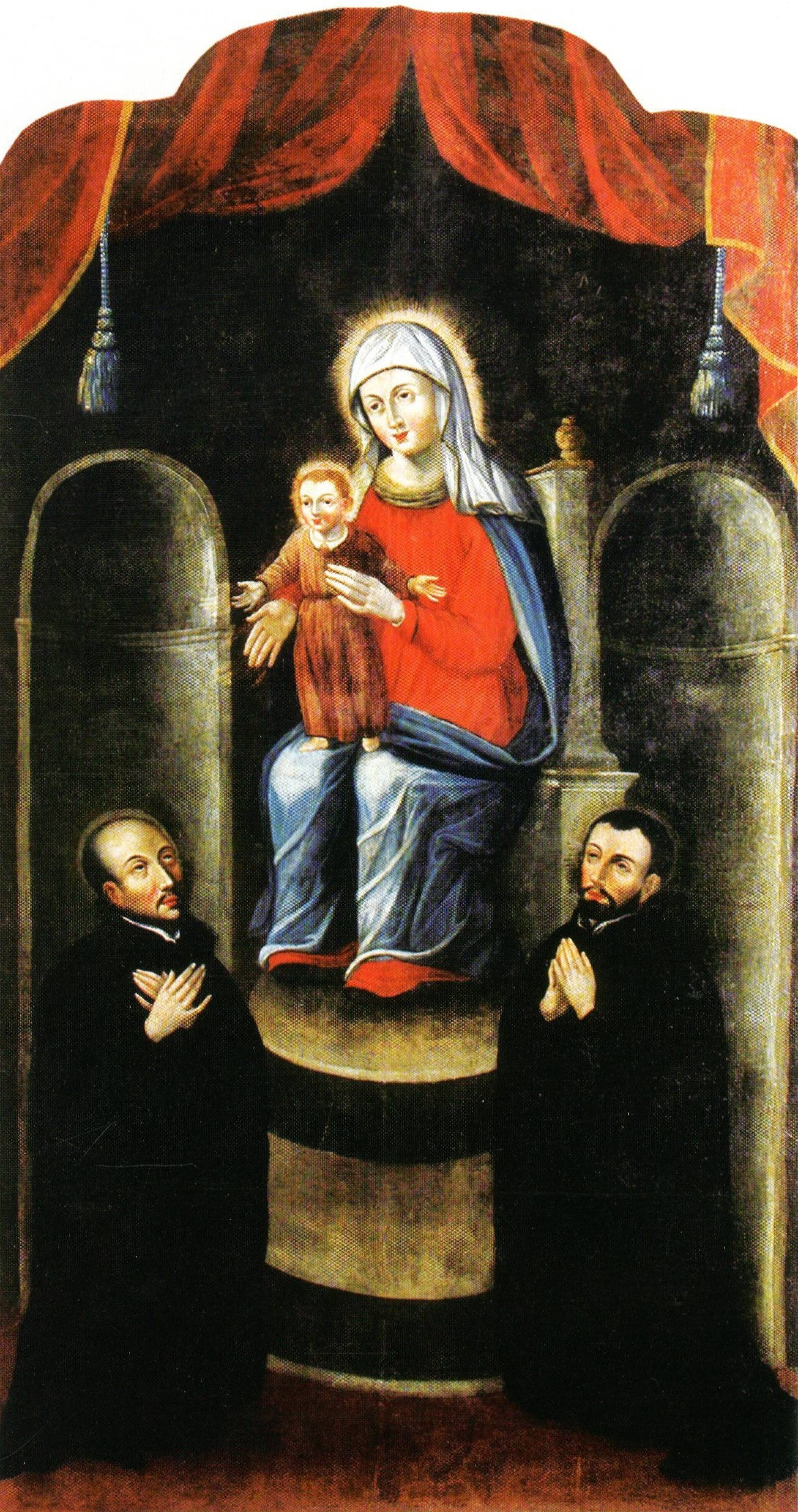 THE HOLY VIRGIN OF KRYVOSHYN. About 1740. Canvas, oil. 205x108. Kryvoshyn village Church, Liakhavichy district, Brest region. Restoration - V. Nikitin.